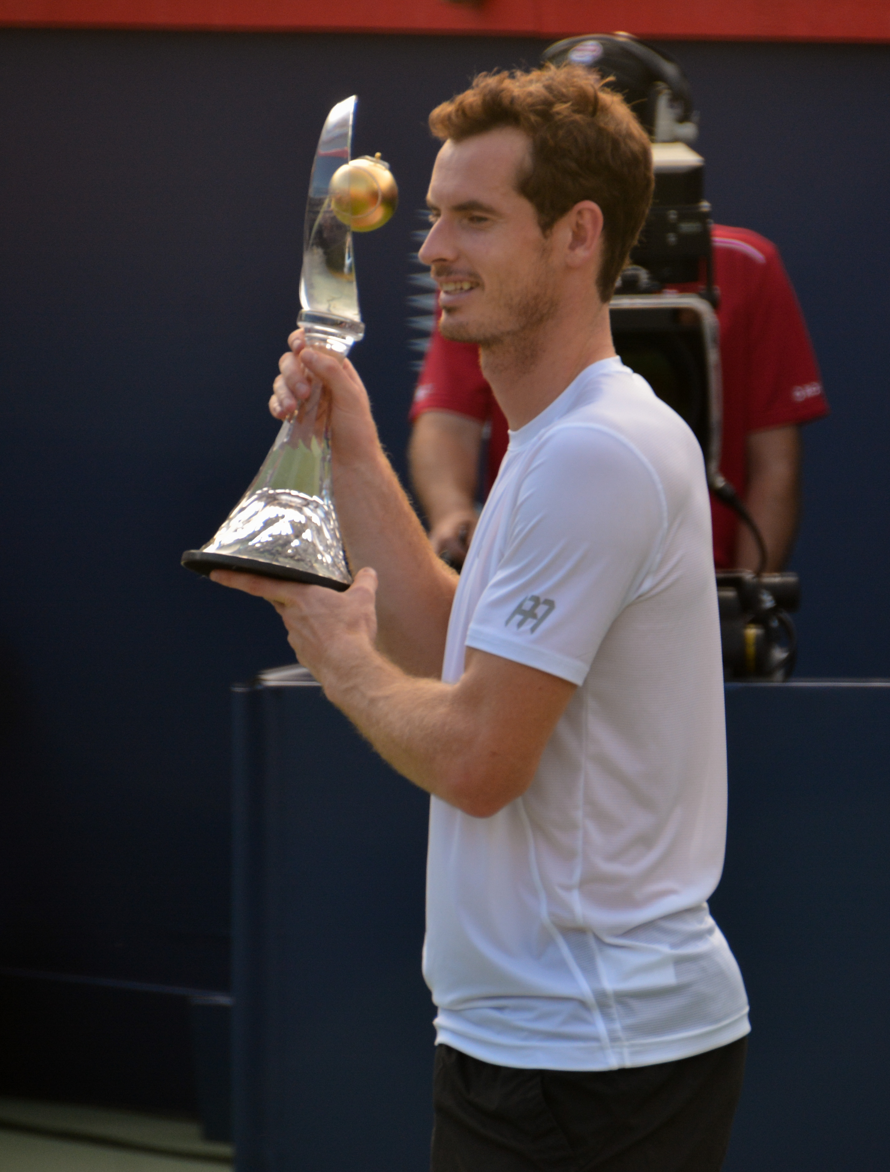 Andy Murray with his Coupe Rogers Trophy. Montreal, August 2015.